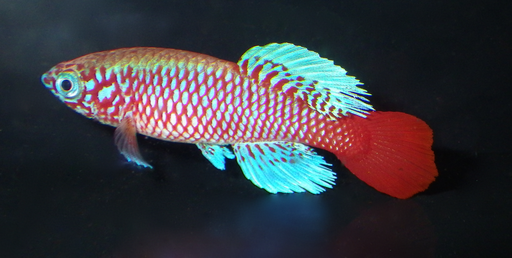 Male Nothobranchius kilomberoensis